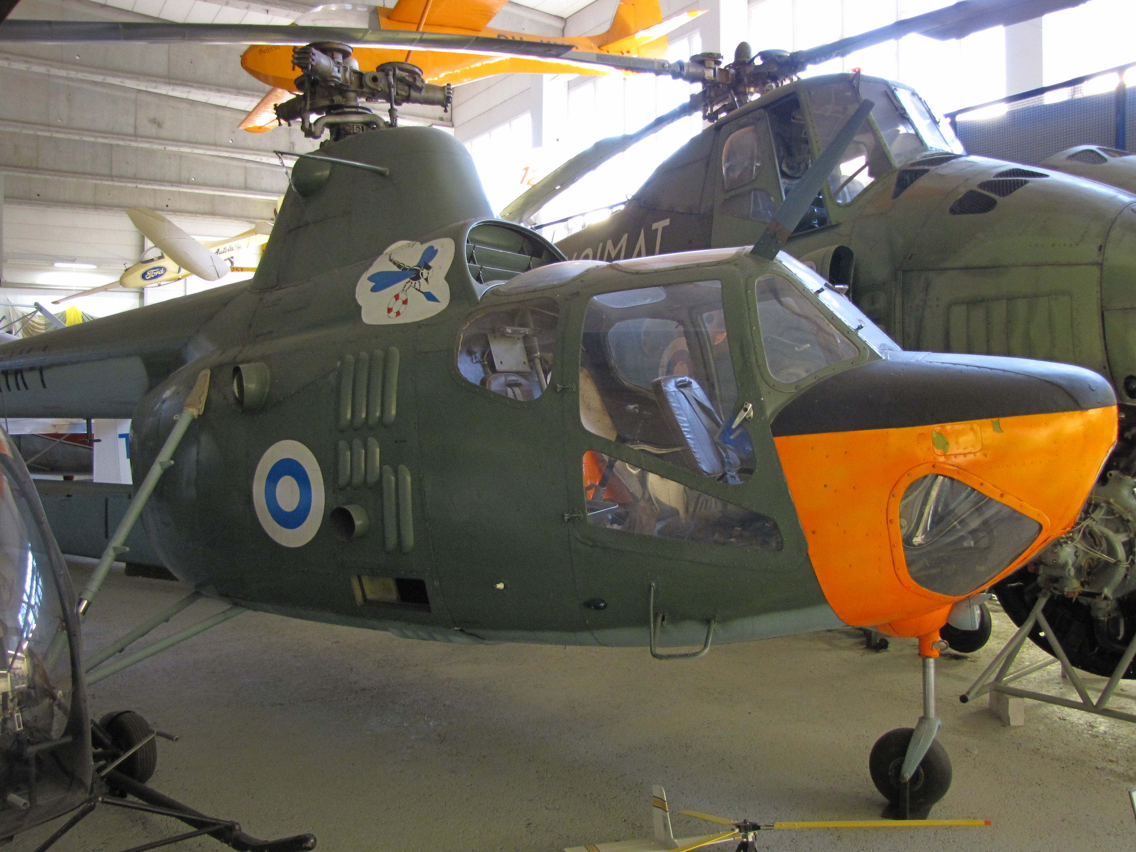 PZL SM-1SZ (Polish variant of Mil Mi-1U) trainer helicopter with dual controls in Finnish Aviation Museum. Finnish military registry HK-1, serial number A07029. Mil Mi-4 in the background.